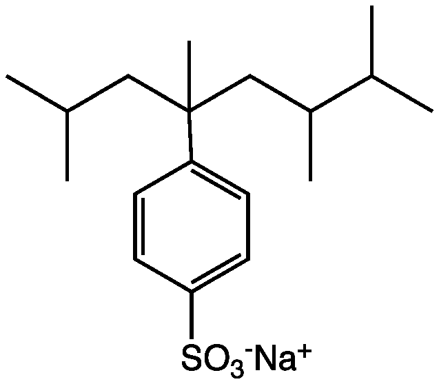 structure of sodium dodecylbenzenesulfonate, branched form